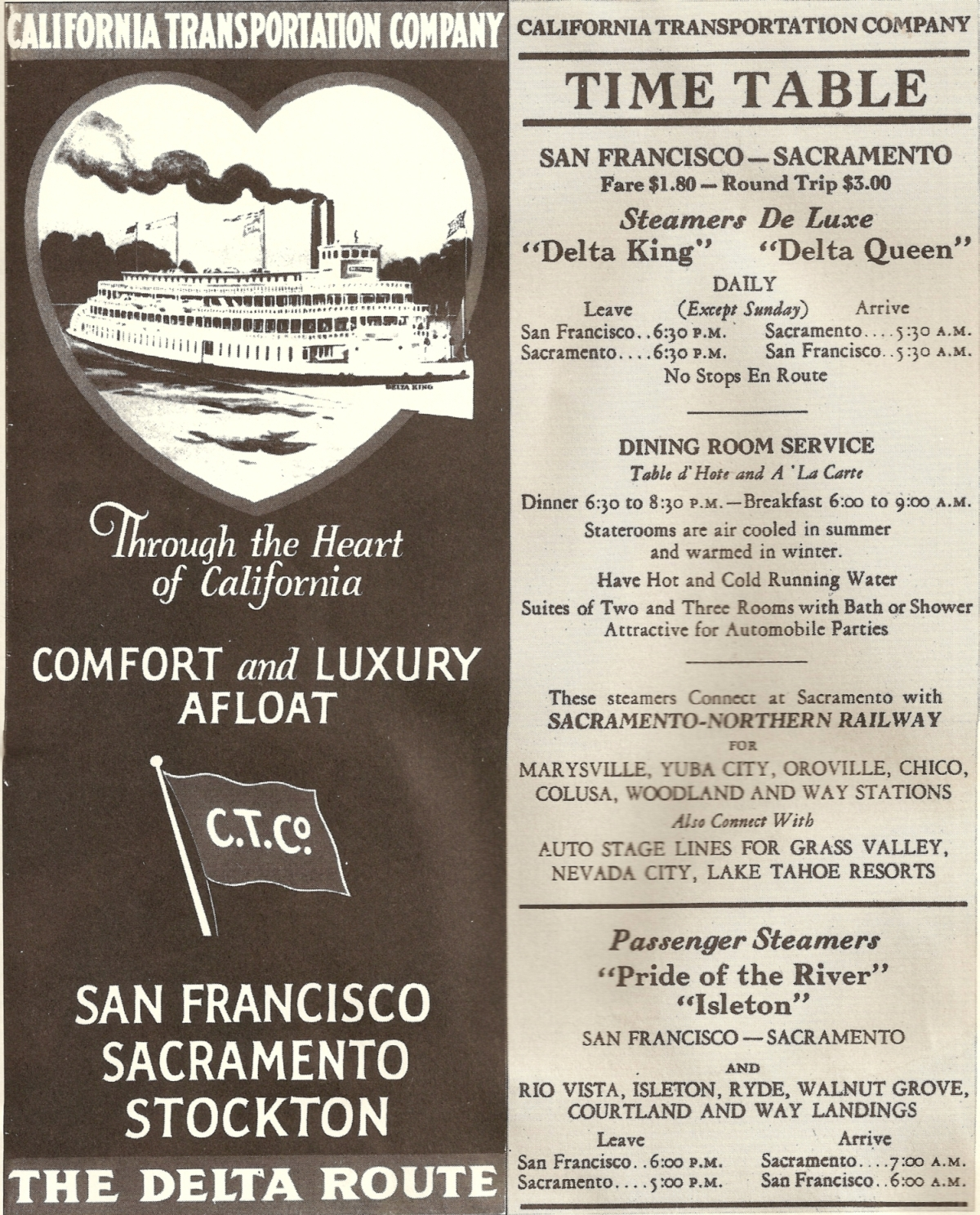 Original timetable of the Delta King and Delta Queen, front and backiside